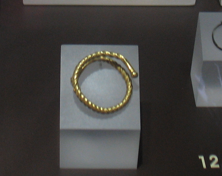 Little gold torc jewel, from Castro de las Peñas de Oro. (Alava, Basque country Spain)